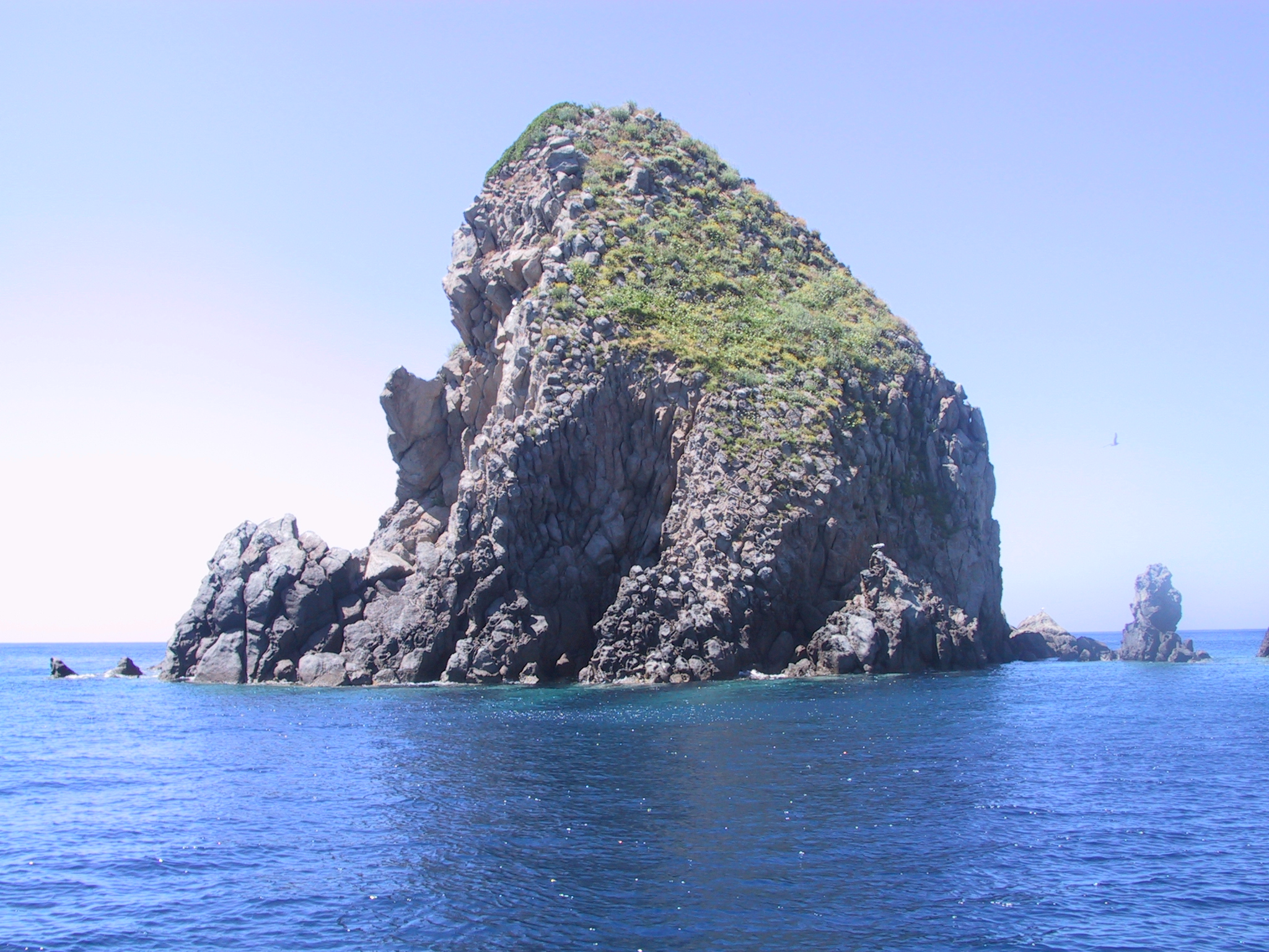 Tall rock in Ponza.